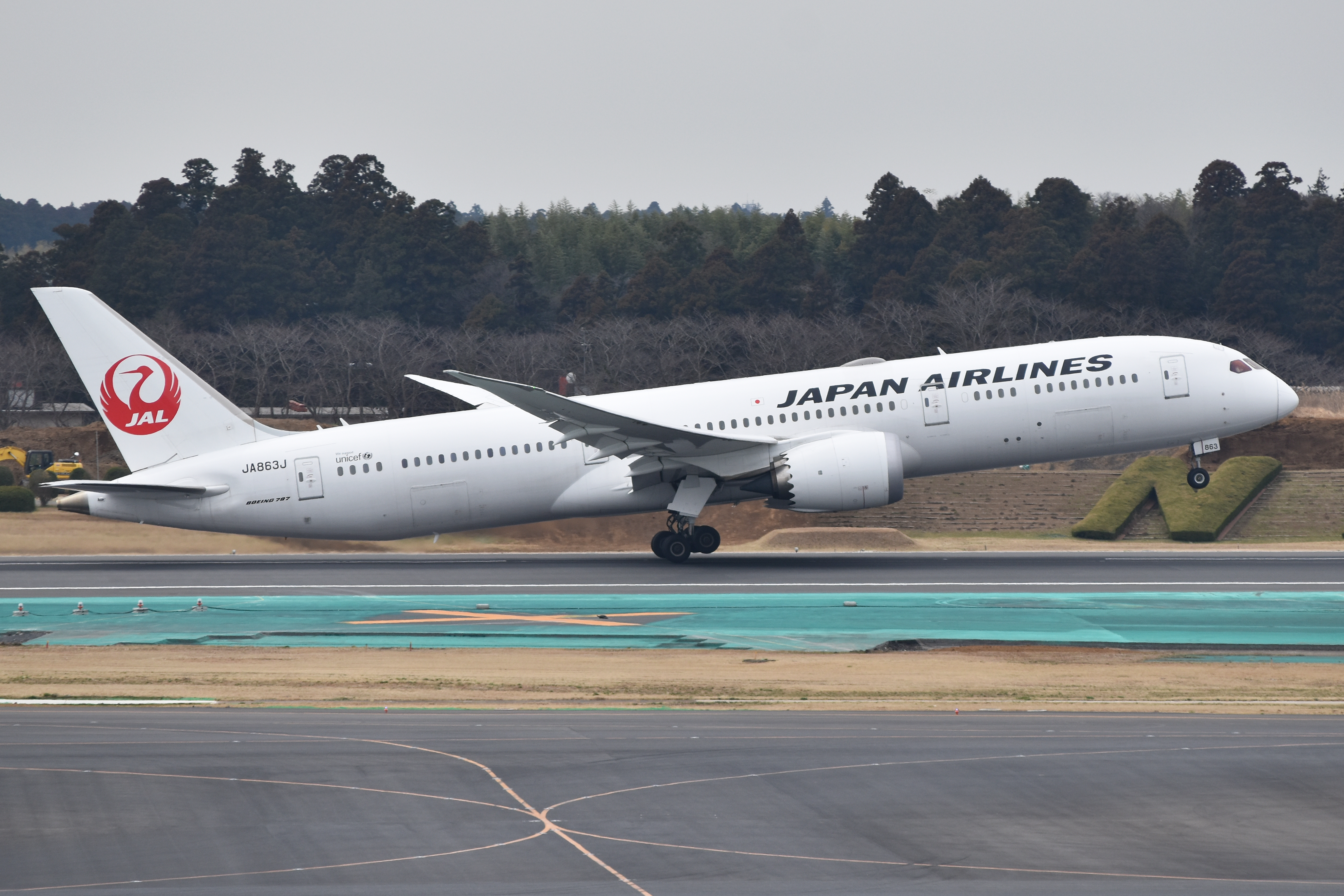 c/n 38137, l/n 391 Built 2016 Departing on flight JL407 / JAL407 to Frankfurt Seen from Terminal 1 viewing terrace. Narita International Airport Tokyo, Japan 16th March 2019